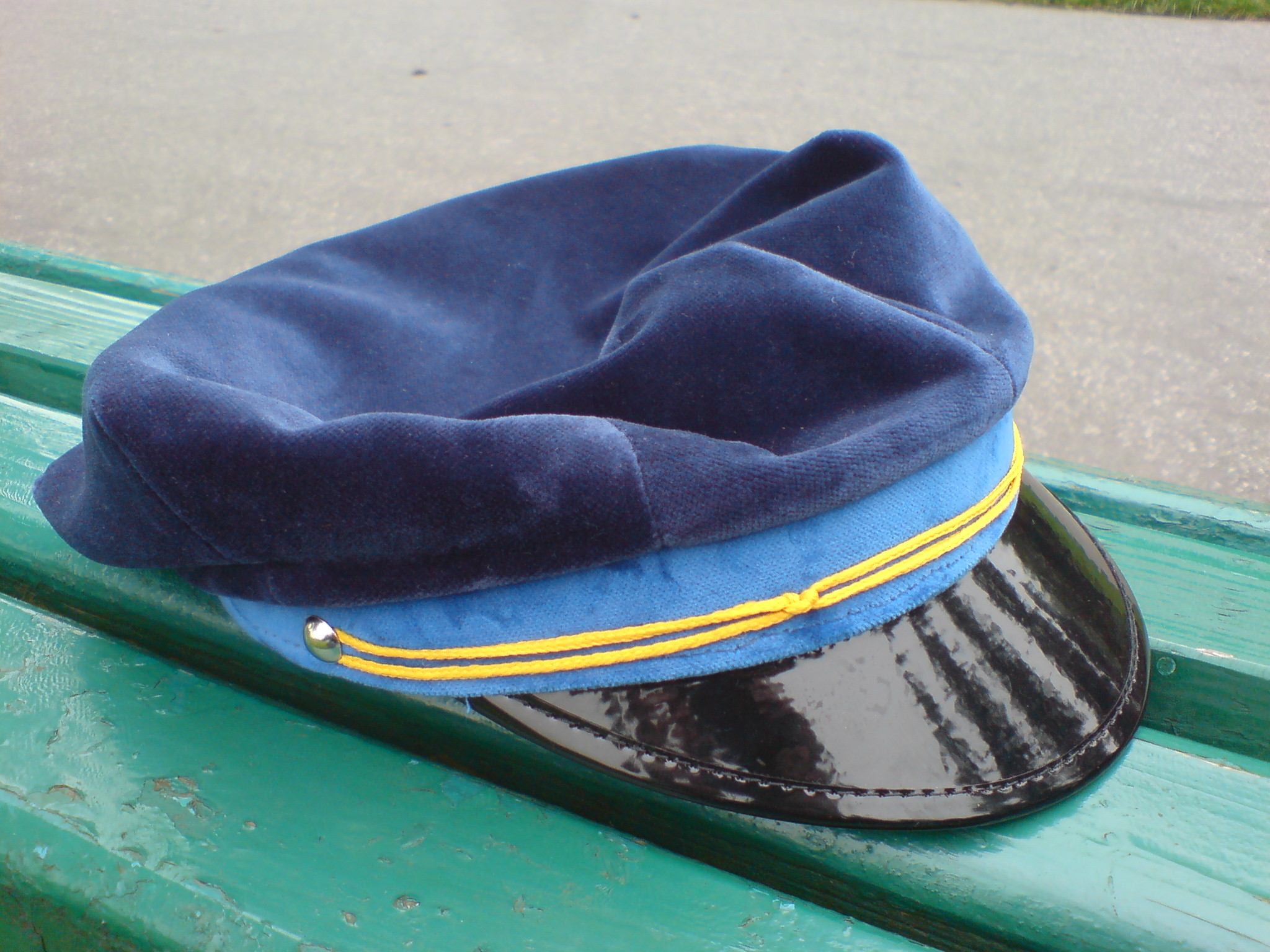 Czapka_studencka_Wydziału_Polonistyki_UJ